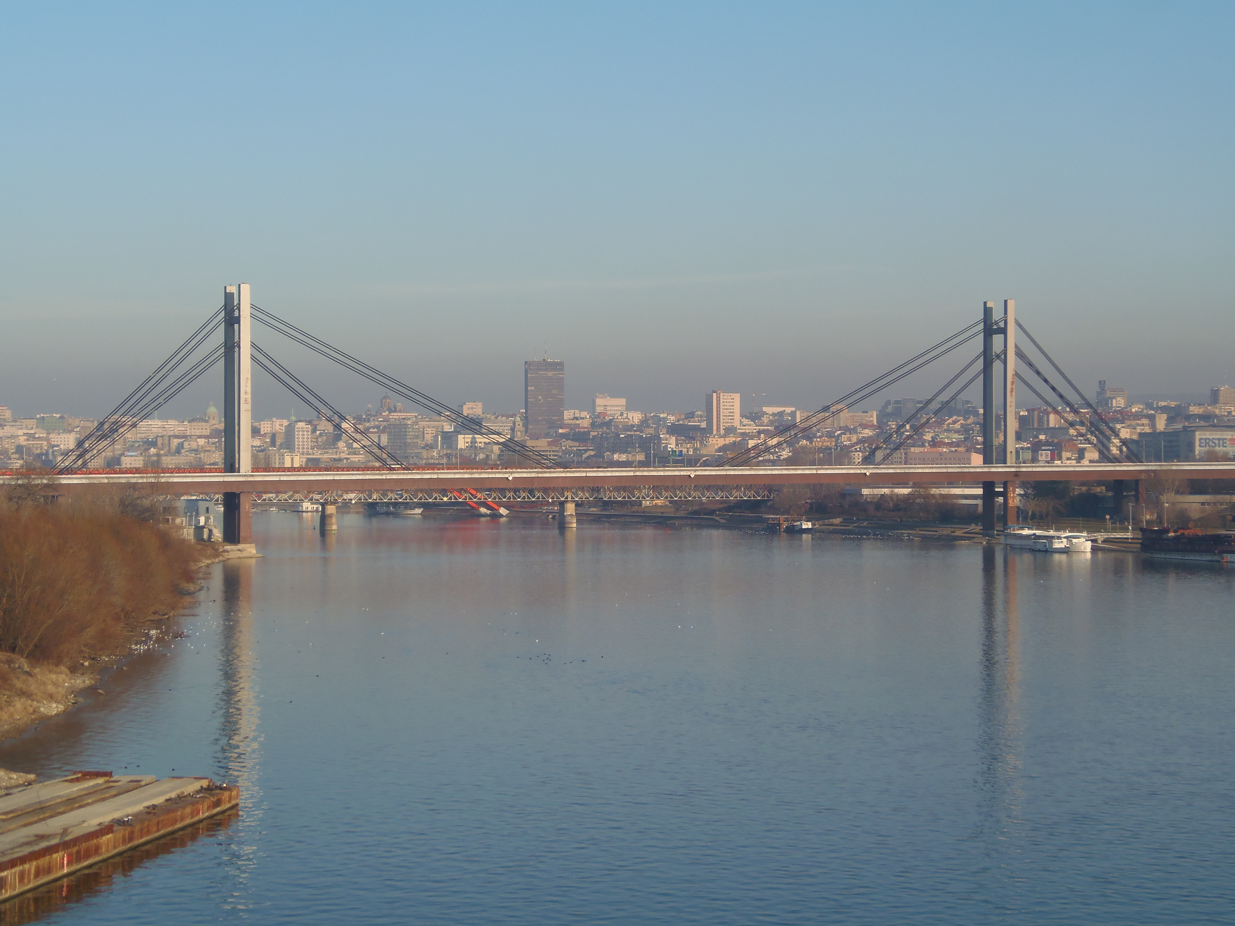 New Railway bridge, as seen from Ada Bridge.